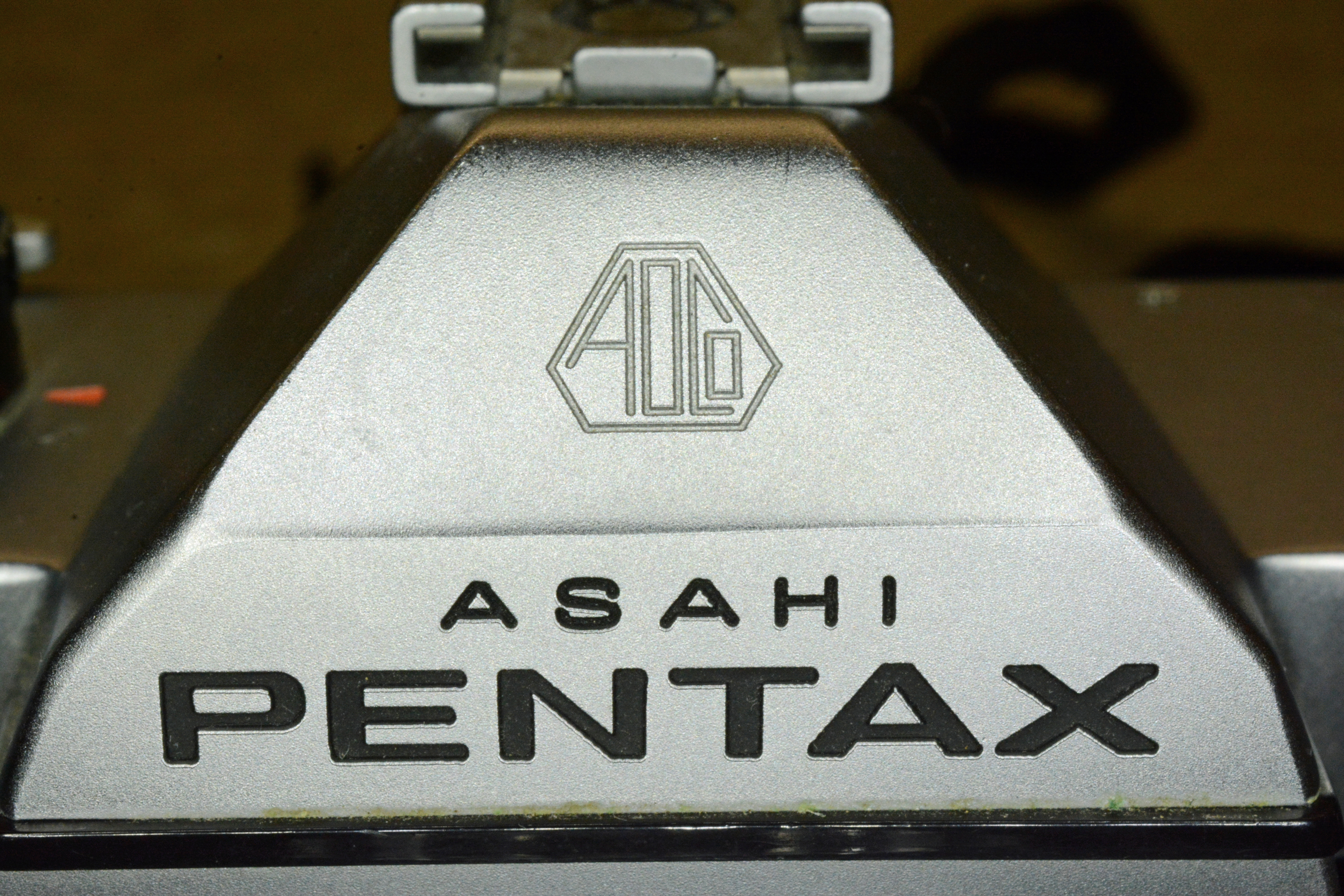 Asahi Pentax logo on a Pentax K1000